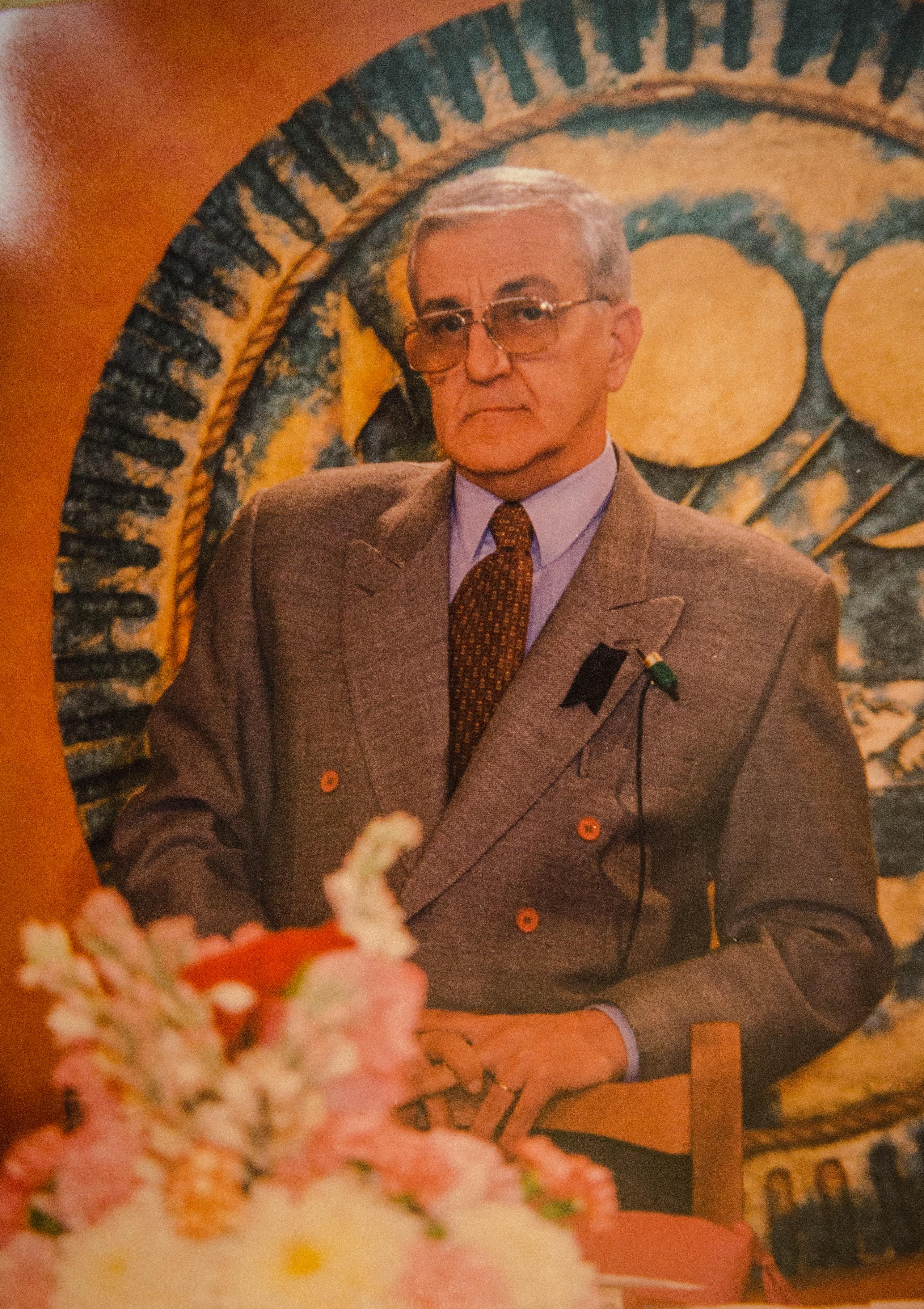 Fue fundador de Punto & Coma, con el que realizó producciones gráficas, radiales y televisivas, siendo la primera producción fueguina que llegó a la televisión nacional, al ser parte de la programación de TV Quality desde el martes 7 de julio de 1998. Fue el primer periodista de esa Provincia en ingresar a la Sociedad Interamericana de Prensa en 1986 y, desde el 30 de abril de 1999, Miembro Correspondiente de la Academia Nacional de Periodismo.